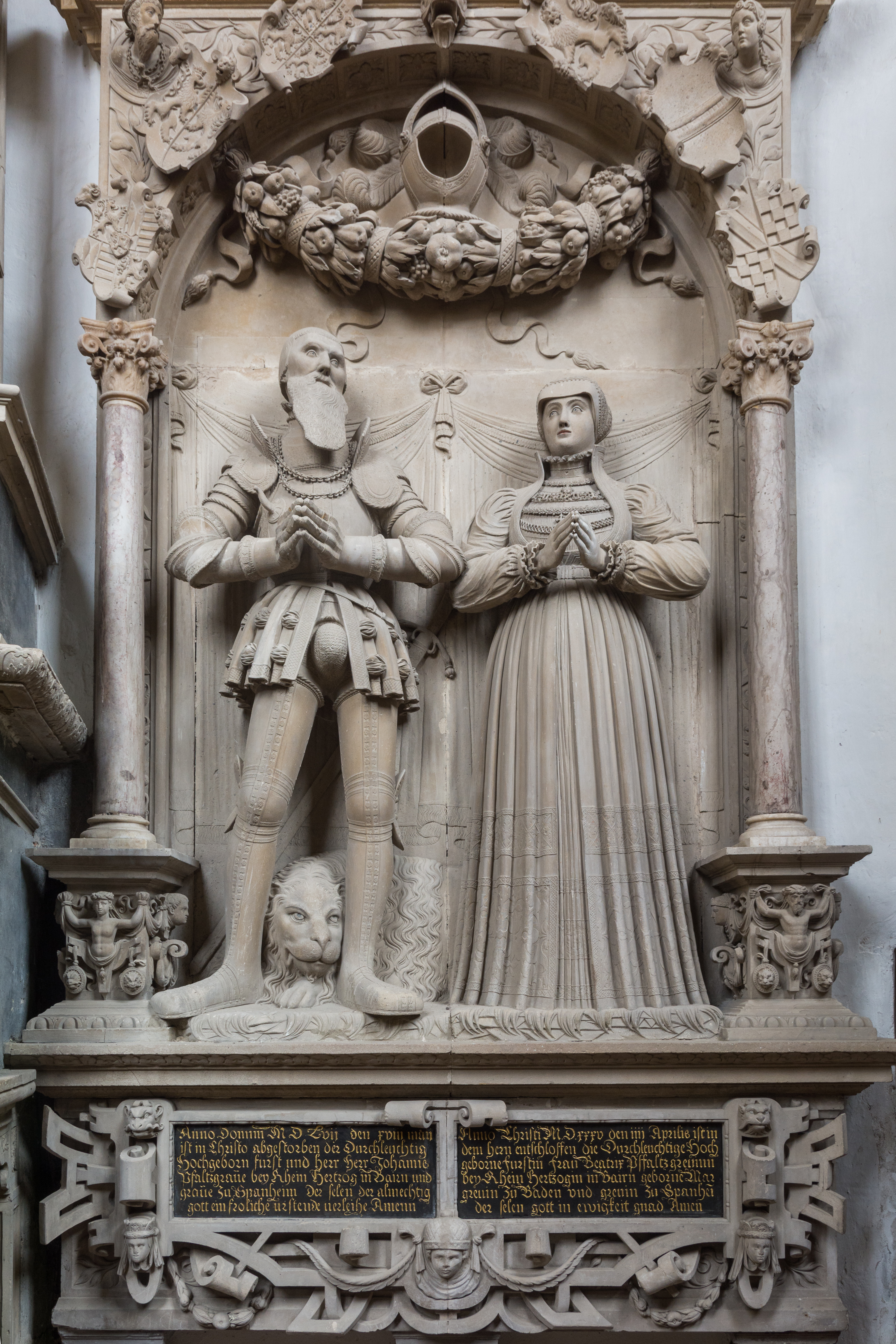 Effigy of Johan II of Pfalz-Simmern and Beatrix of Baden